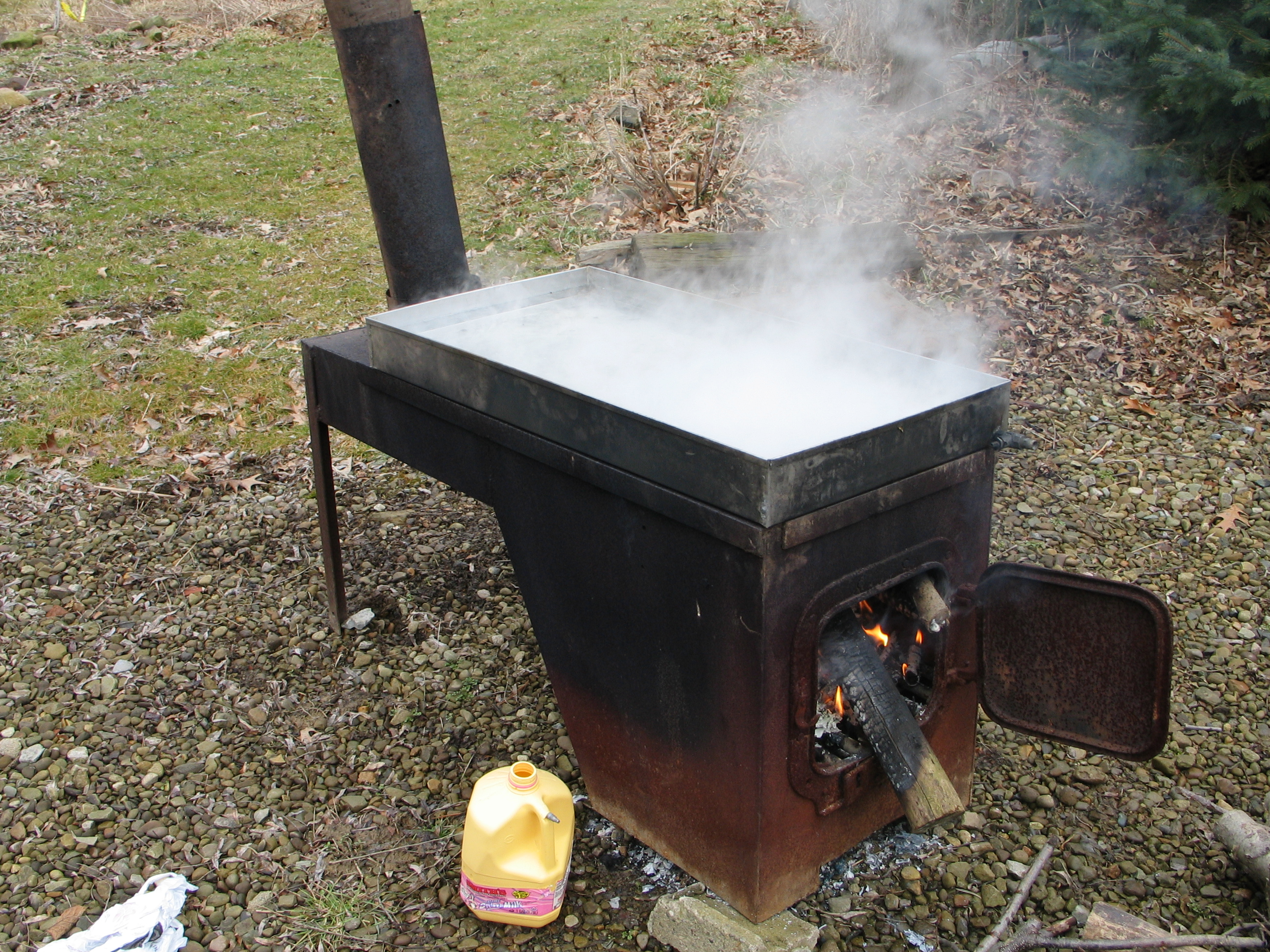 Boiler used to make maple syrup.